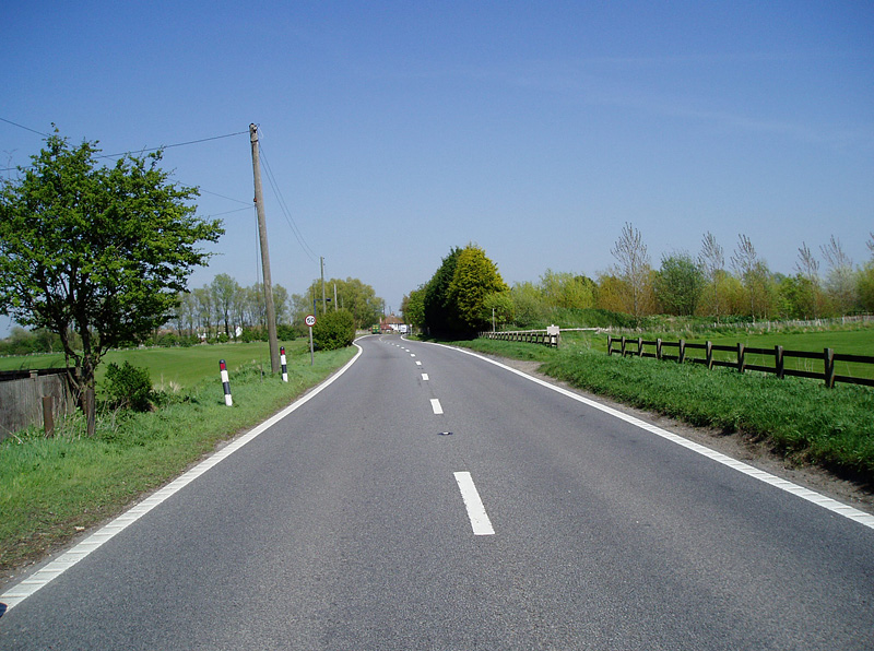 A view along the A259 road from Rye, Sussex, to Brookland, Kent, taken just outside Brookland.